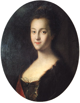 Portrait of Great Duchess Cathrine Alexeevna (future Cathrine the Great) in her first year in marriage and in Russia